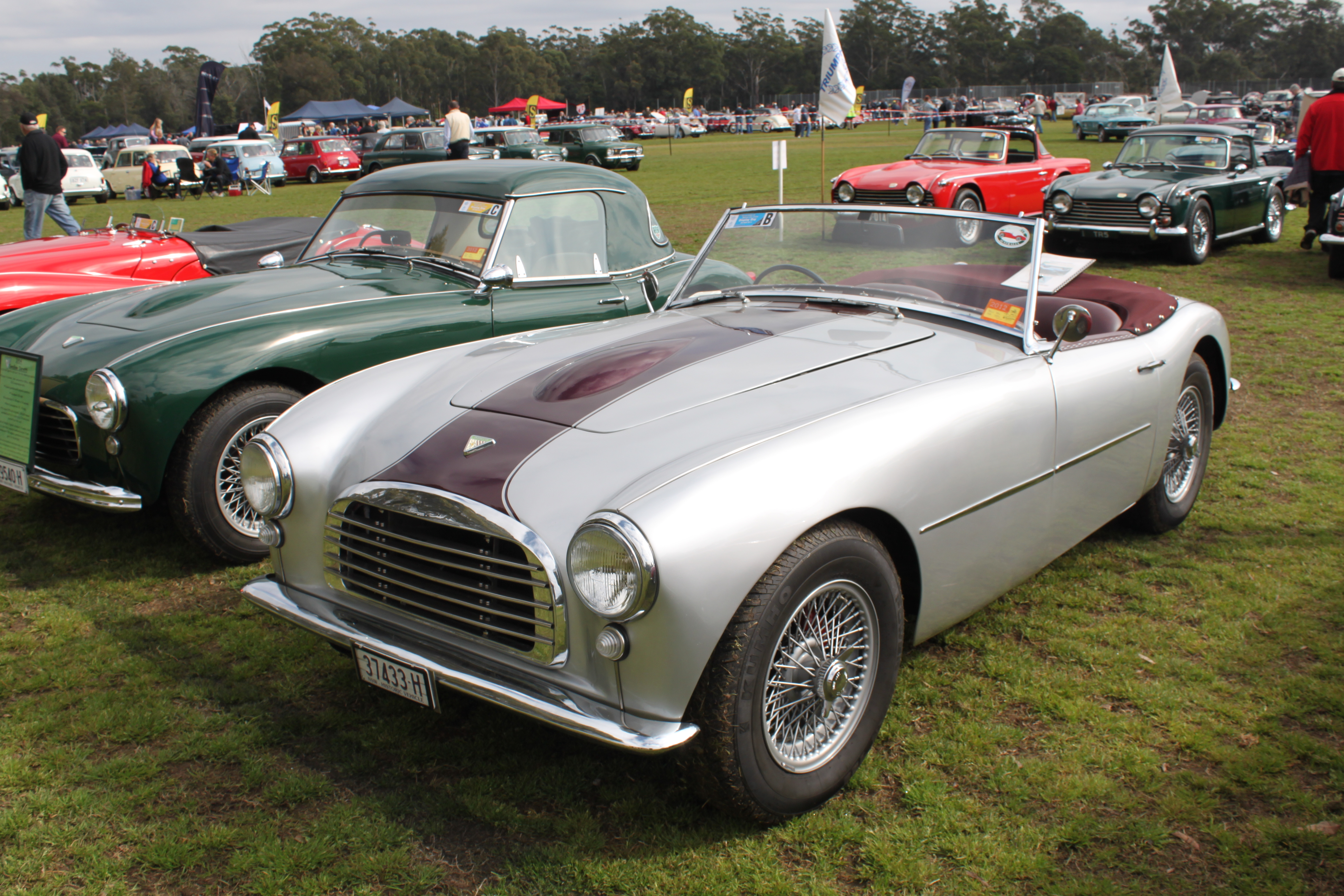 Swallow Doretti